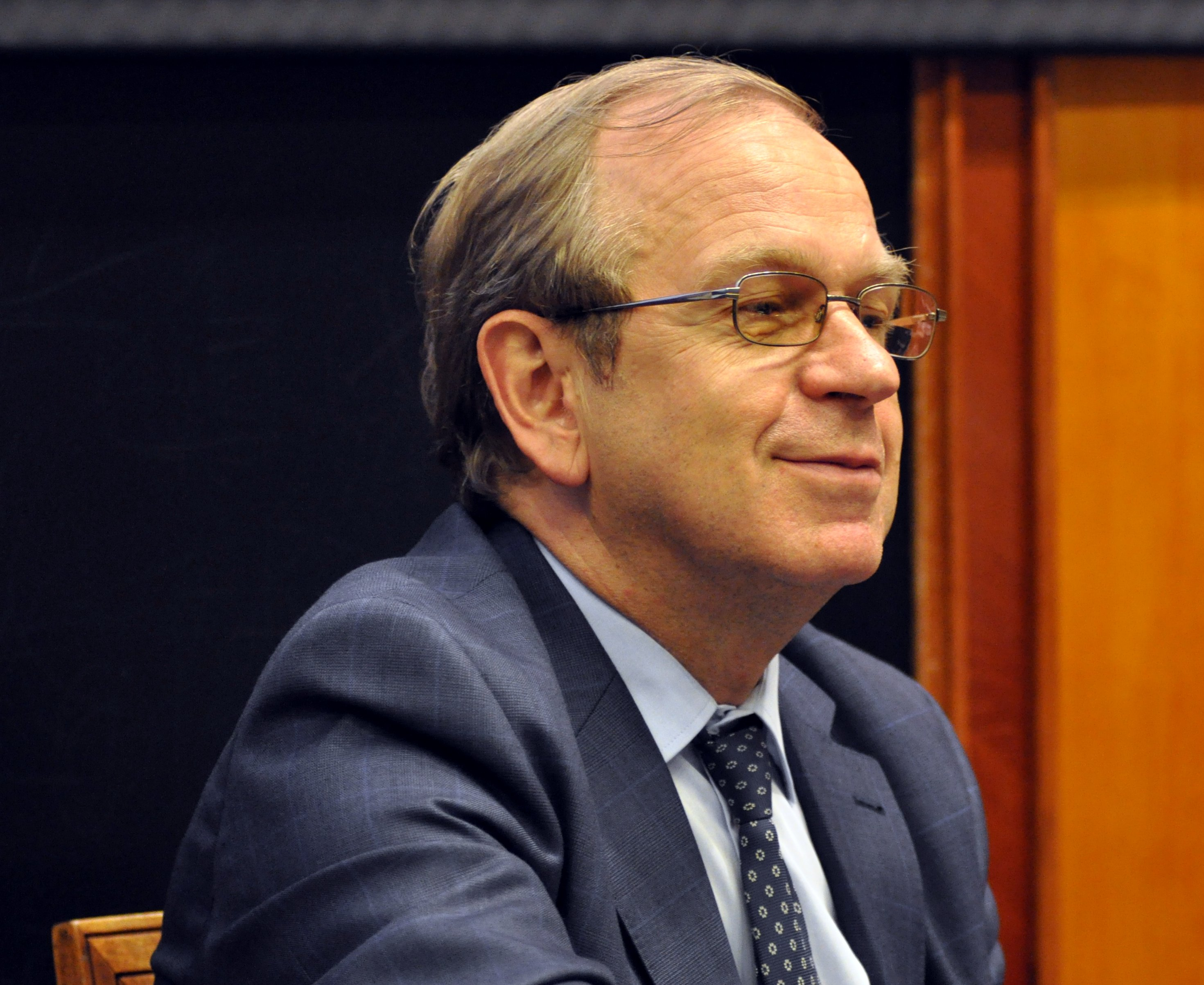 Erkki Liikanen, Finnish politician and Governor of the Bank of Finland, Arppeanum, Helsinki, March 2009.